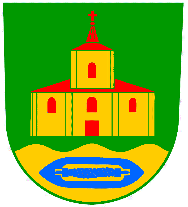 Municipal coat of arms of Bystré village, Rychnov nad Kněžnou District, Czech Republic.